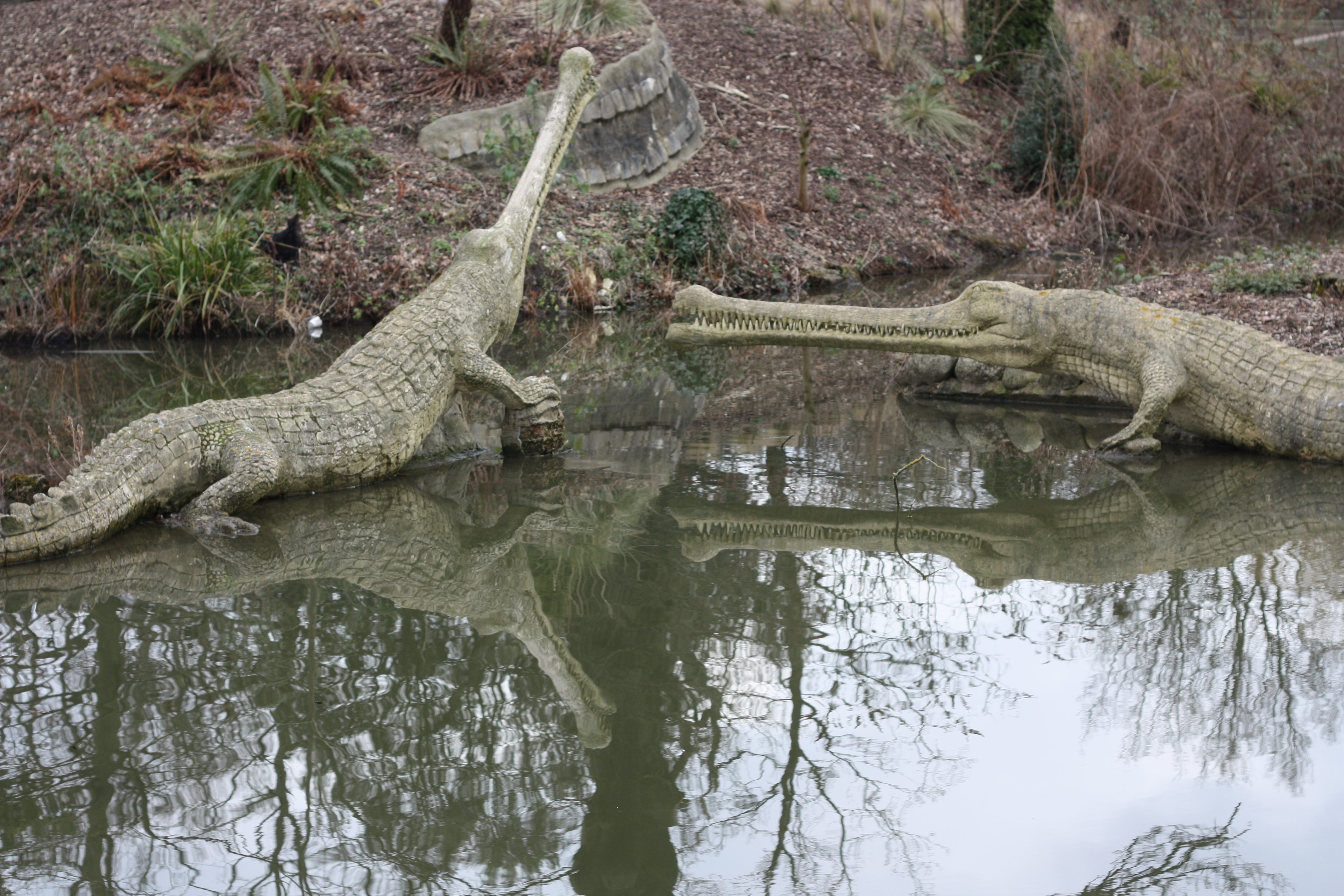 feed your children to us